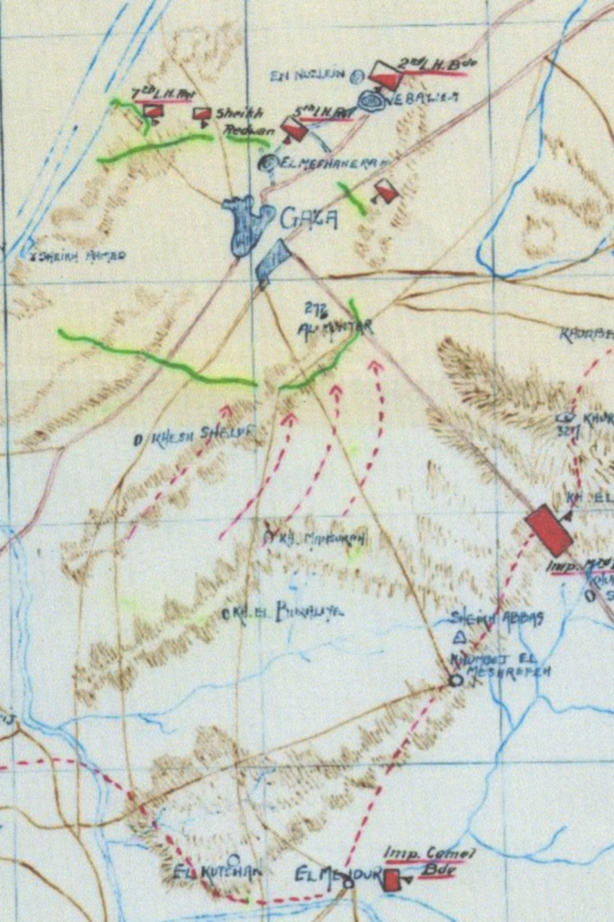 Sketch Map of the 1st Battle of Gaza at 14:00 Other information Australian Government publication